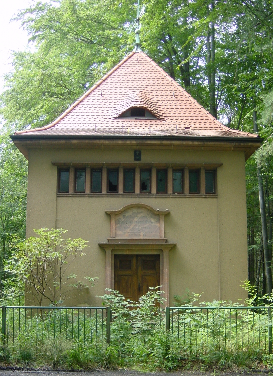 Valve chamber house at pumped storage power plant Mittweida, Saxony, Germany (out of order)